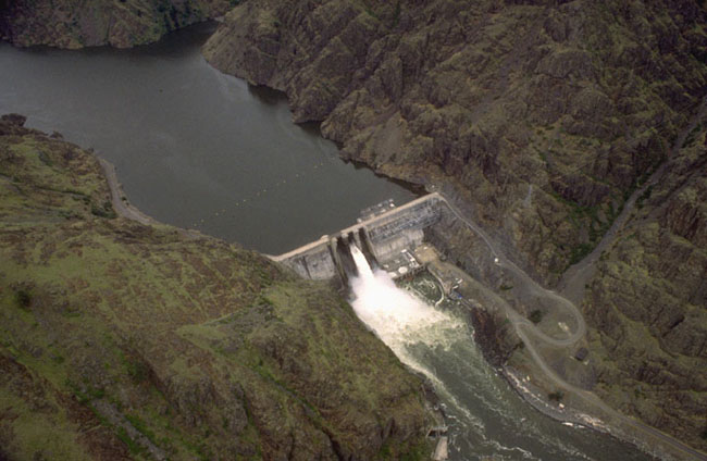 Hells Canyon Dam on the Snake River on the Idaho - Oregon border Source of photo: Bureau of Land Management